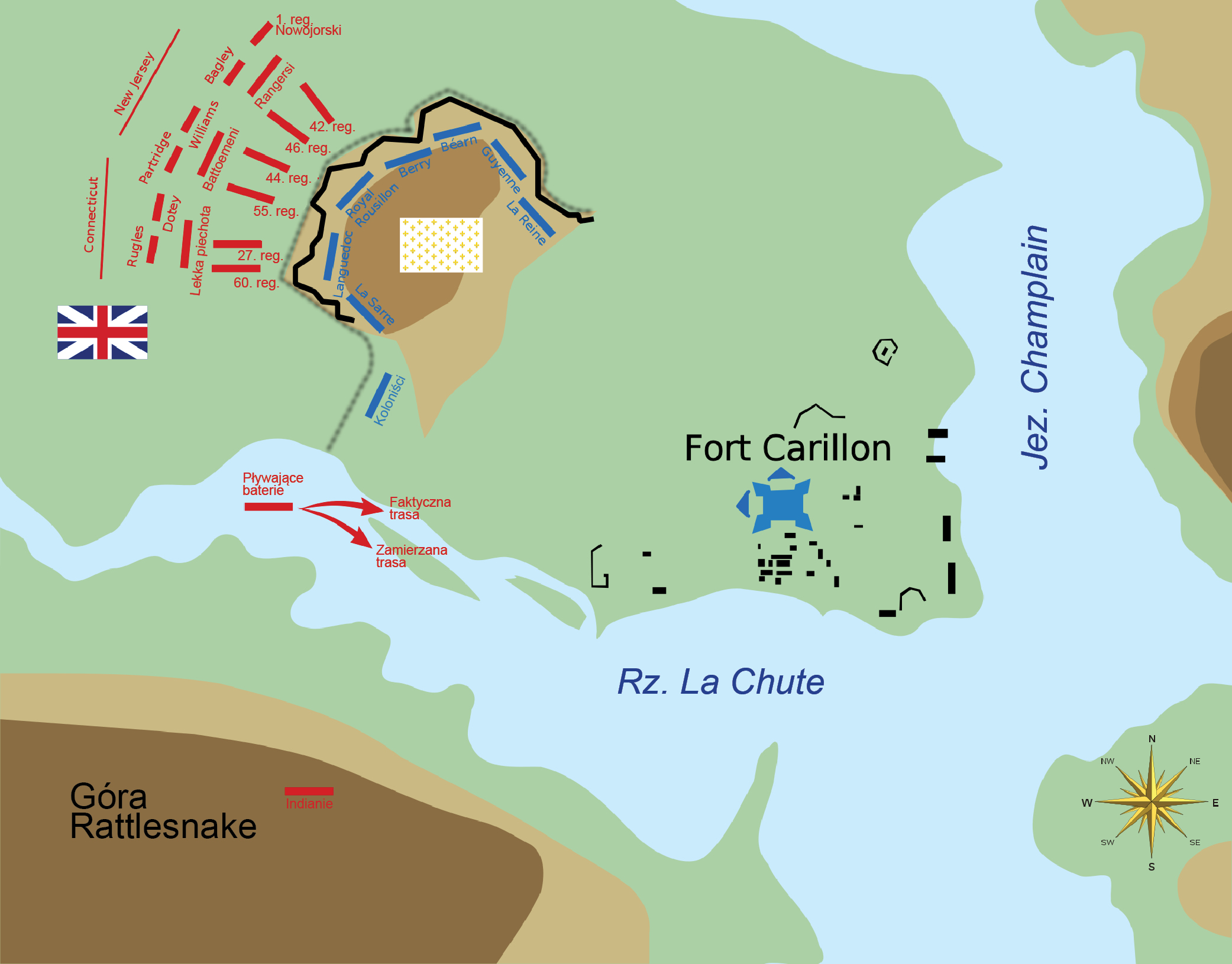 A schematic representation of the 1758 map by Thomas Jeffreys (File:TiconderogaJeffreys1758.jpg), including rough terrain elevations and military positions of the Battle of Carillon.